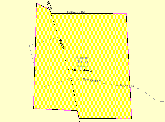 Map of Miltonsburg, a village in Monroe County, Ohio, United States, with its boundaries at the time of the 2000 census.